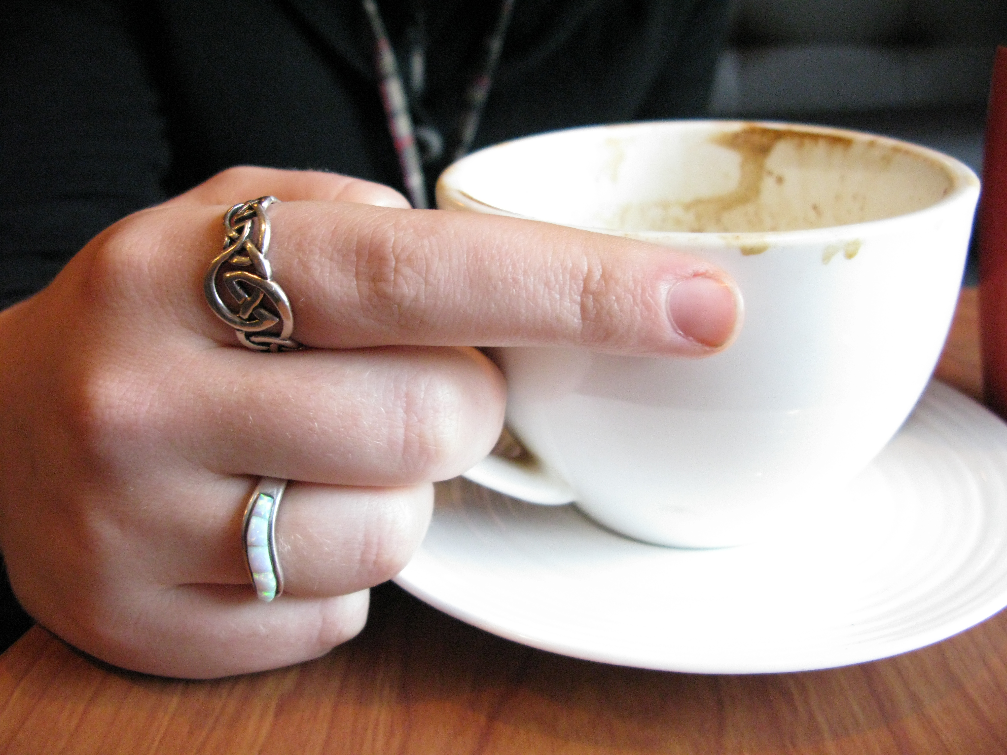 On international Coffee Day, millions of coffee lovers around the world celebrate their favorite beverage - coffee!